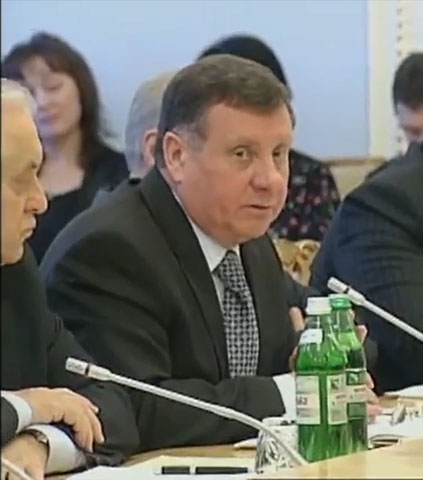 Adam Martyniuk, Ukrainian politician, member of the Ukrainian Verkhovna Rada, ex vice-speaker